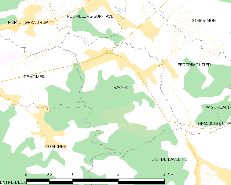 Map of French municipality Raves